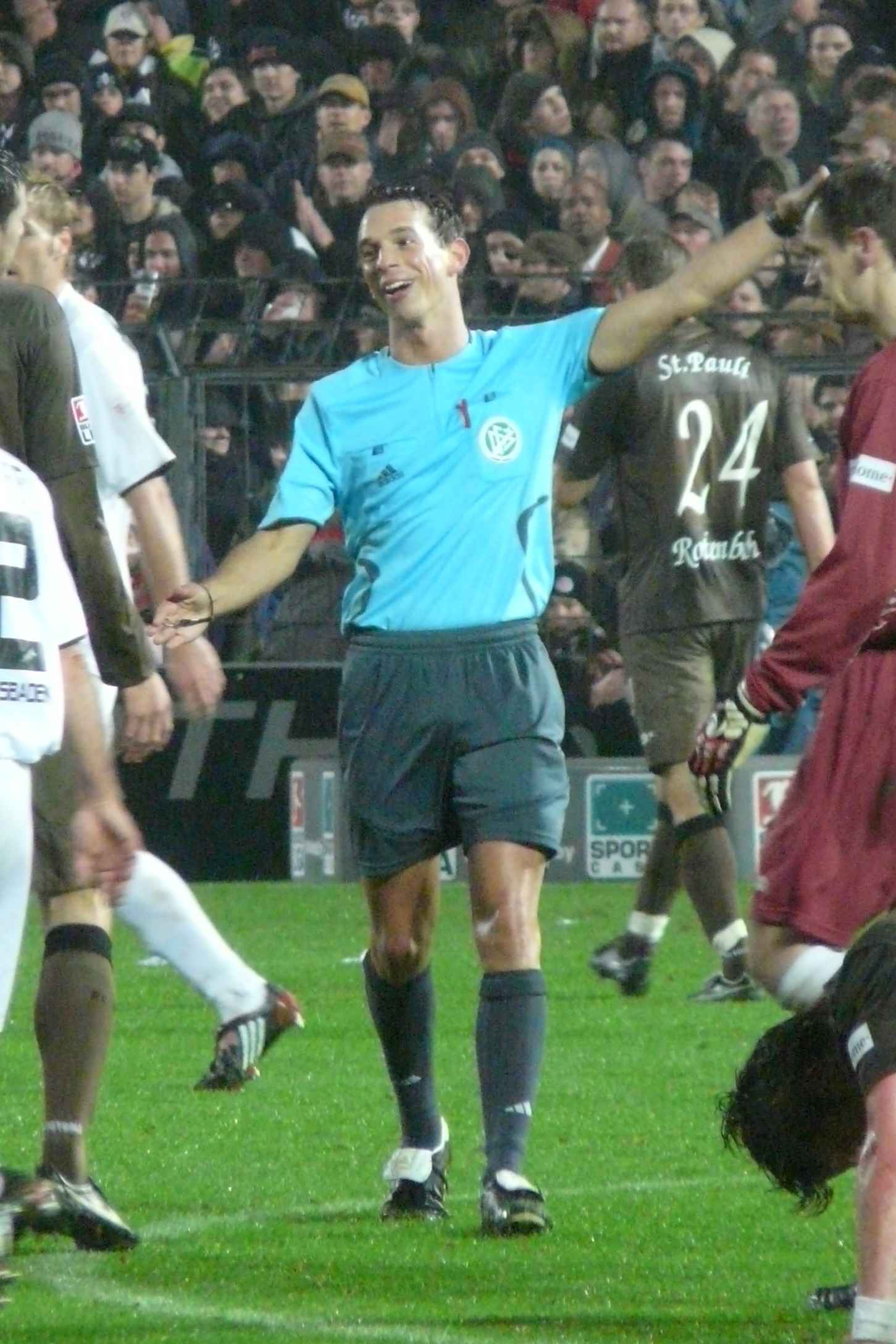 Christian Bandurski Referee